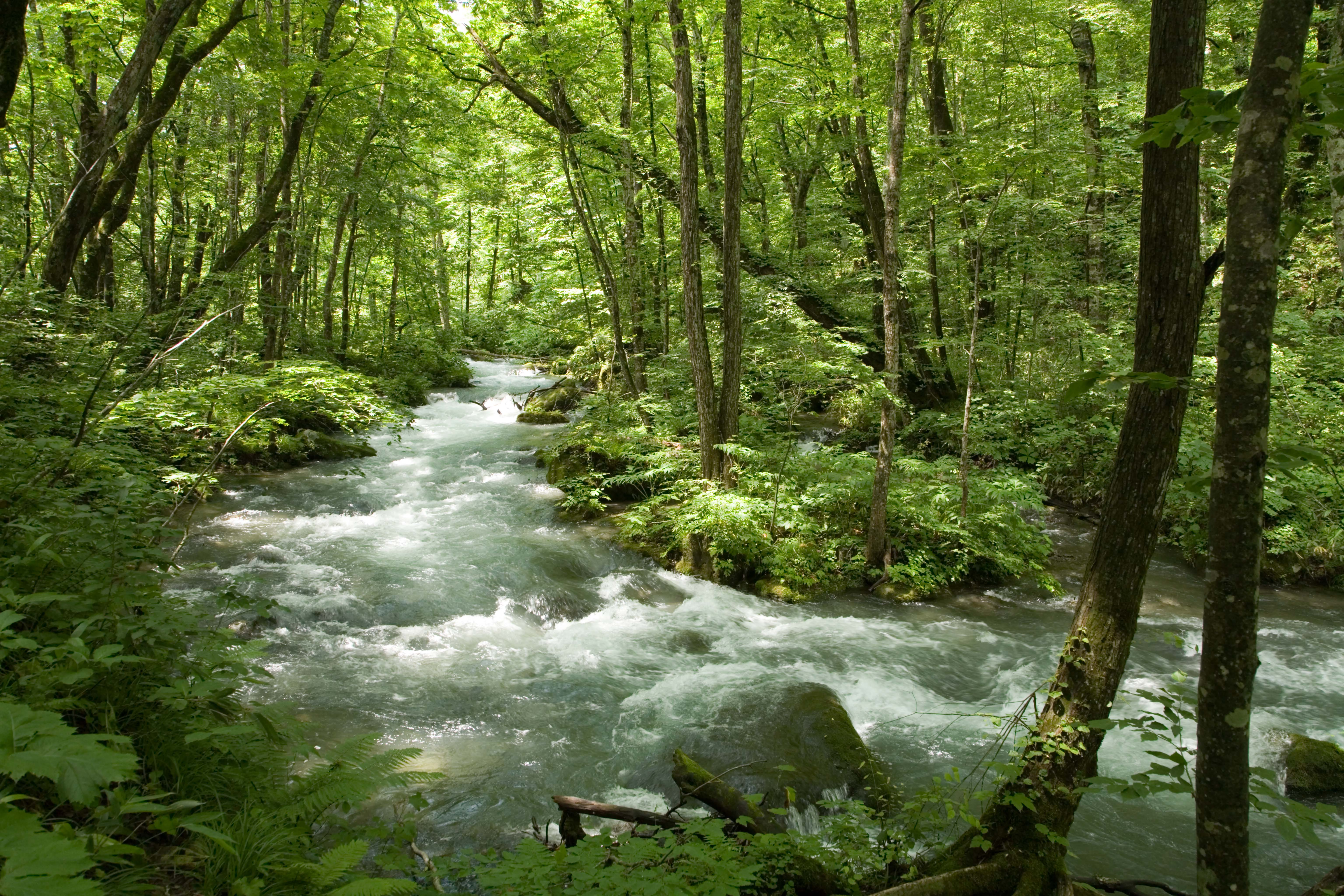 Oirase (奧入瀨) Needs additional description